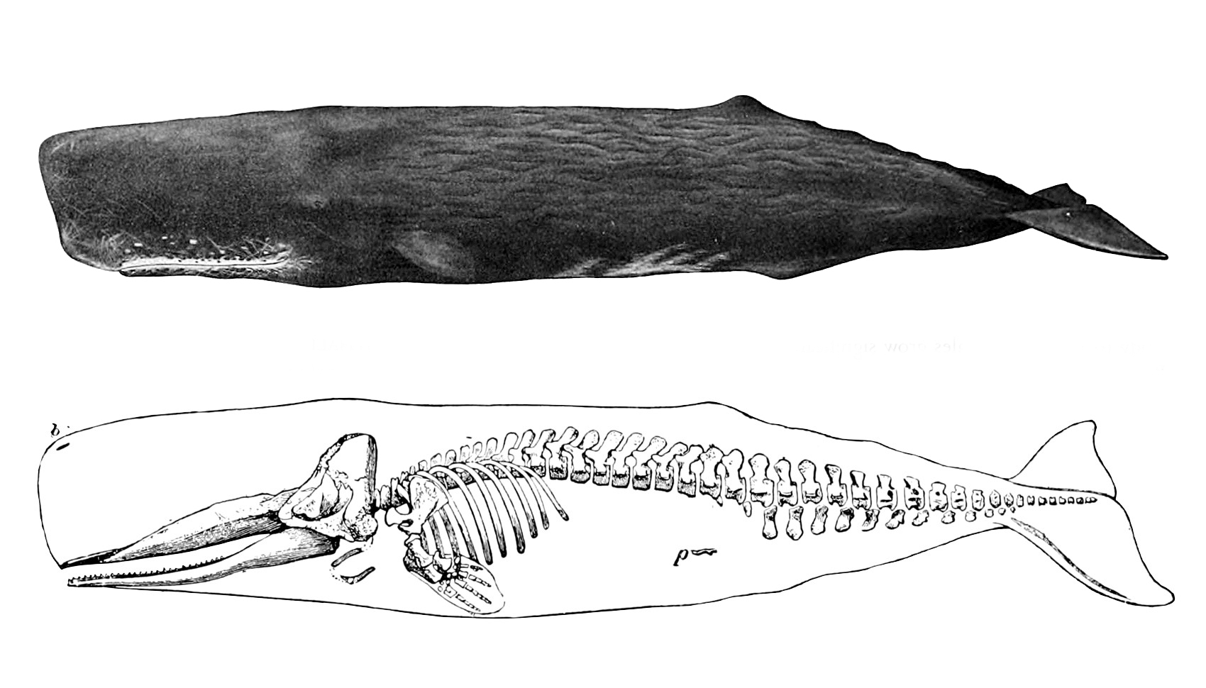 Physeter_macrocephalus